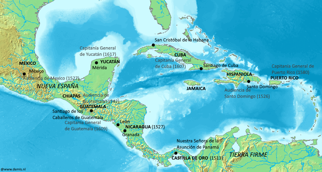 Spanish provinces, audiencias and captaincies general in the Caribbean and Gulf of Mexico, in the 16th to 17th centuries.